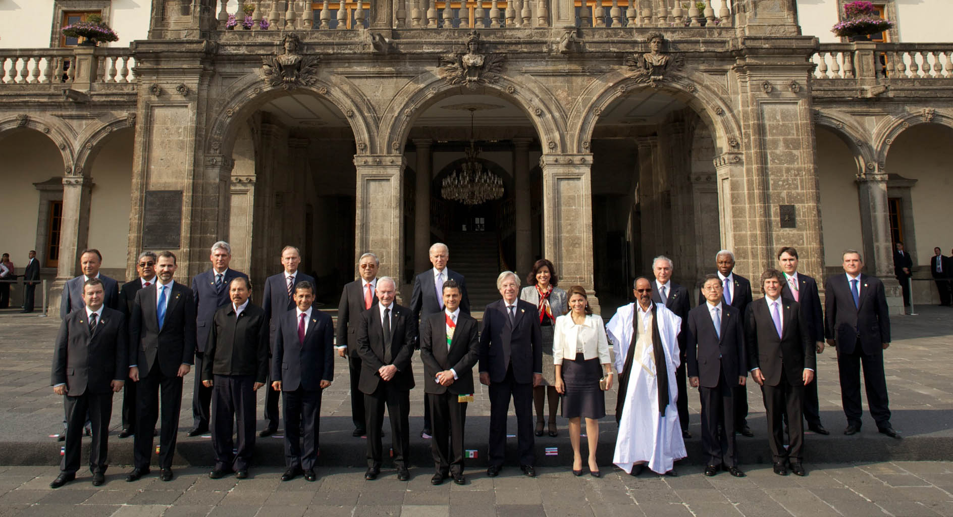 Enrique Peña Nieto with other presidents and leaders.